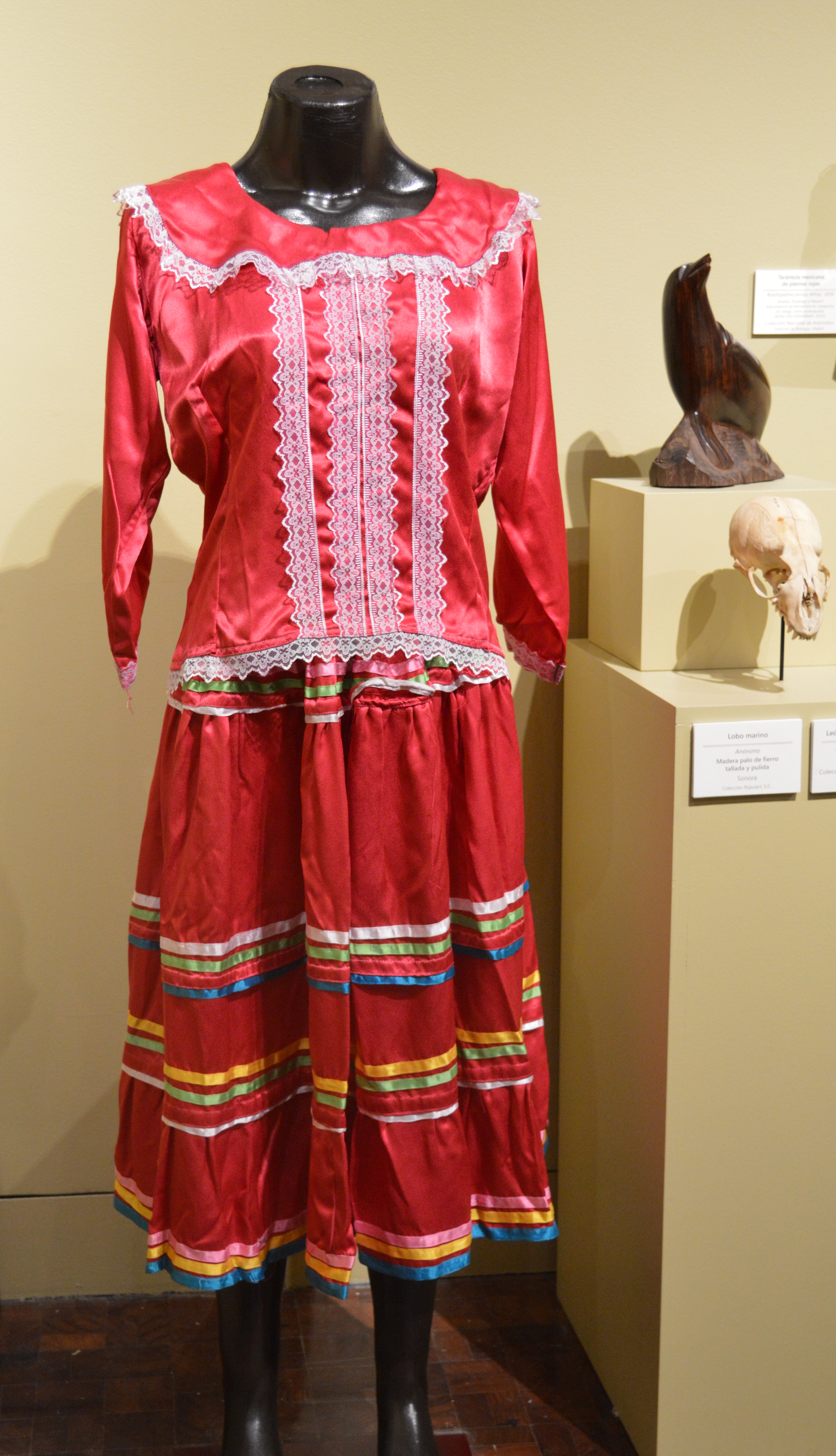 Yaqui woman traditional everyday dress from Sonora at the El Norte, su materia, su artesania at the Museo de Arte Popular in Mexico City